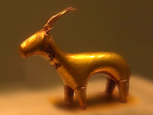 Golden goat. Late Cycladic (17th cent. BCE) gold ibex sculpture about 10cm long with lost-wax casting feet and head, Repoussé body, from an excavation on Santorini